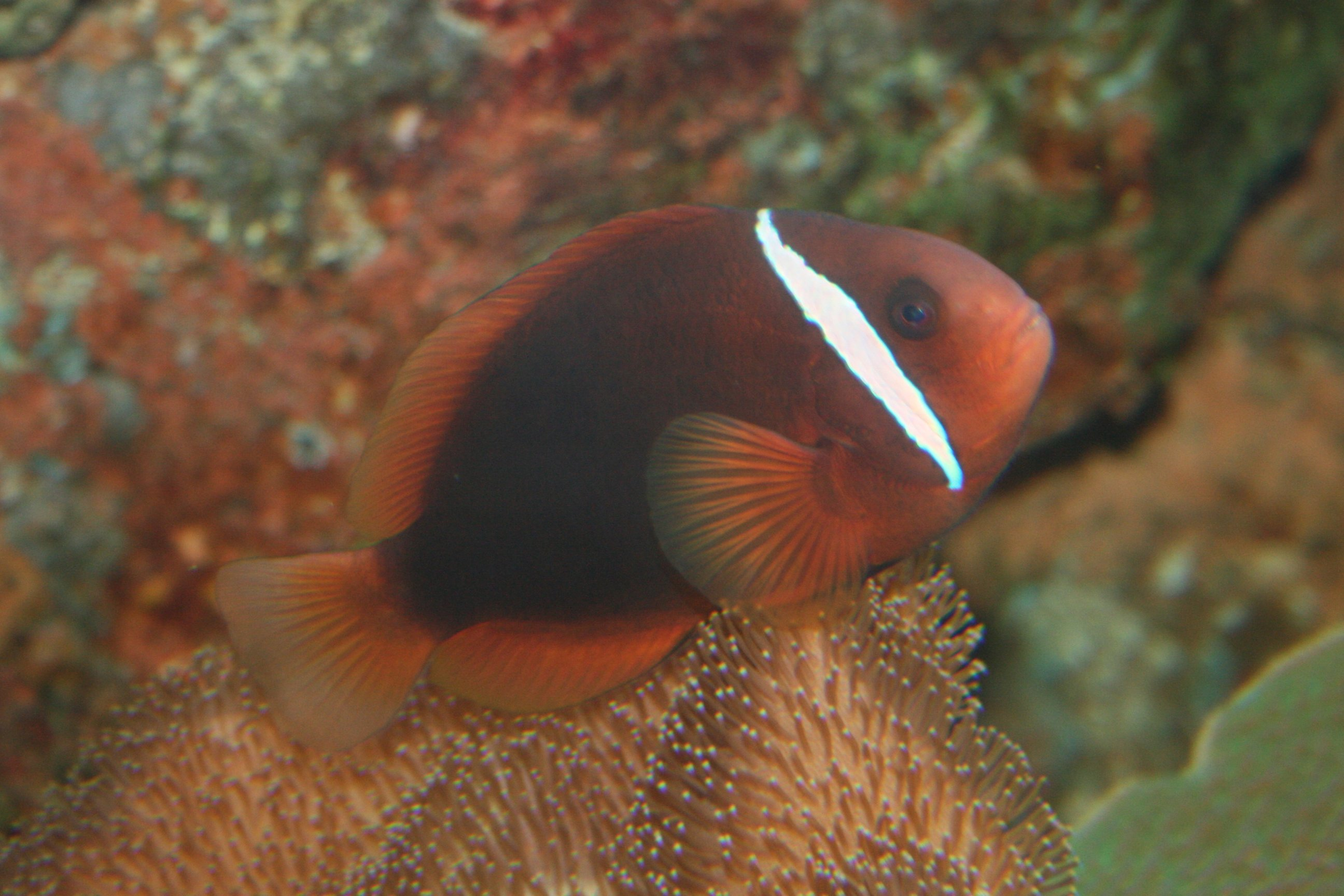 This is a photo of a Tomato Clownfish (Amphiprion frenatus) in an aquarium at the Riverbanks Zoo & Garden in Columbia, SC.